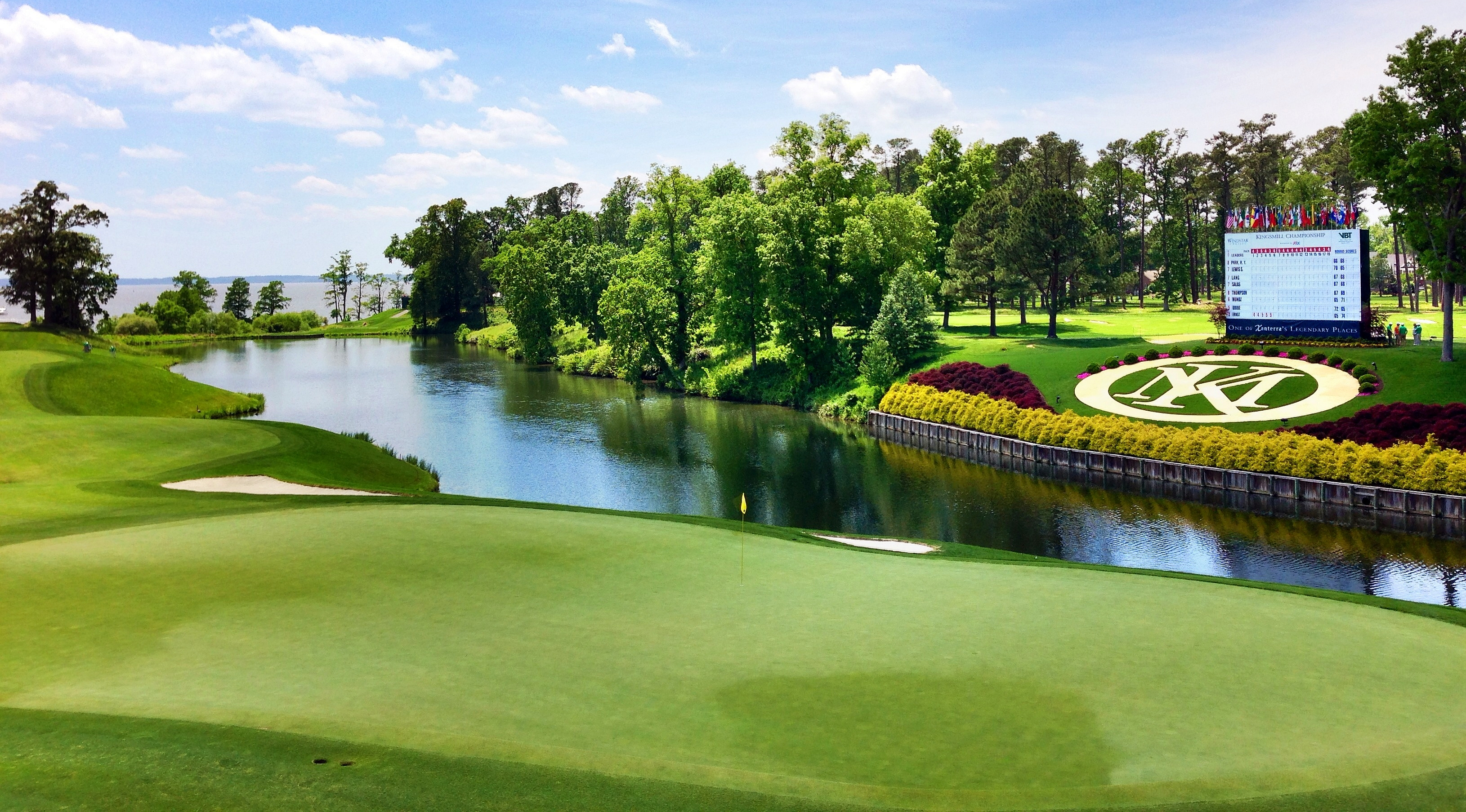 18th hole green, Kingsmill Resort, James City County, Virginia.